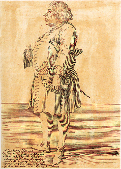 The only known portrait picture of German composer Johann Melchior Molter (1696–1765) by Pier Leone Ghezzi (1674–1755)